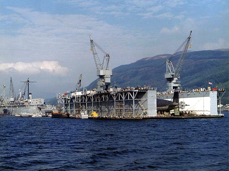 The U.S. Navy floating drydock USS Los Alamos (AFDB-7) at Holy Loch, Scotland (UK), with a ballistic missile submarine (SSBN) inside, circa the 1980s. The submarine tender USS Simon Lake (AS-33) is in the left distance.